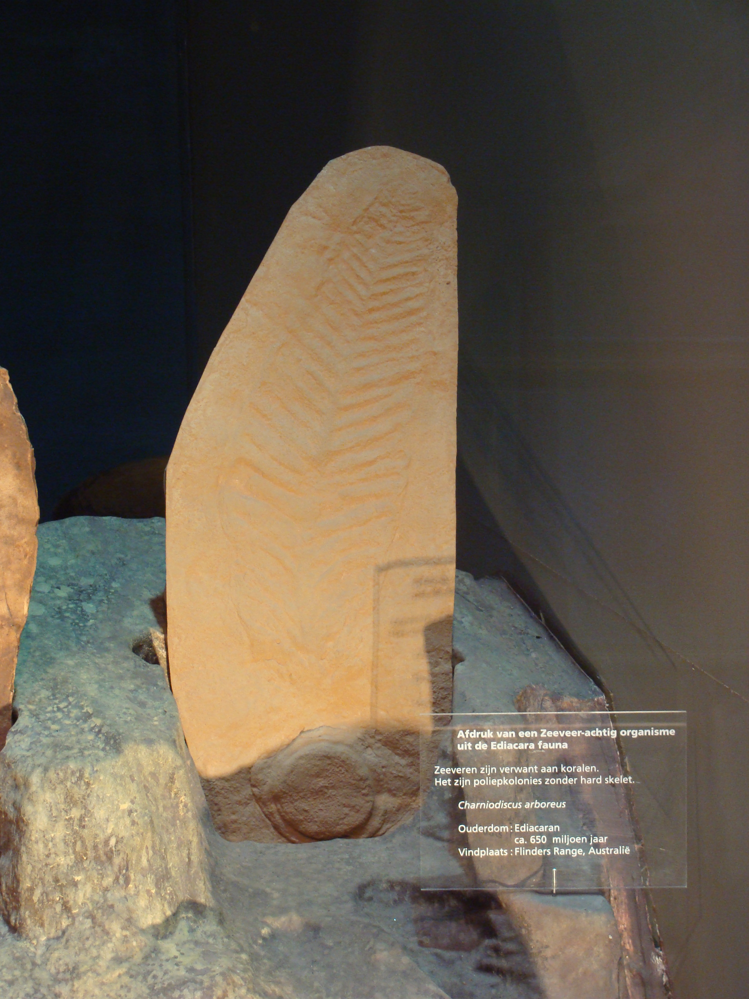 Charniodiscus arboreus in Artis zoo, Amsterdam.